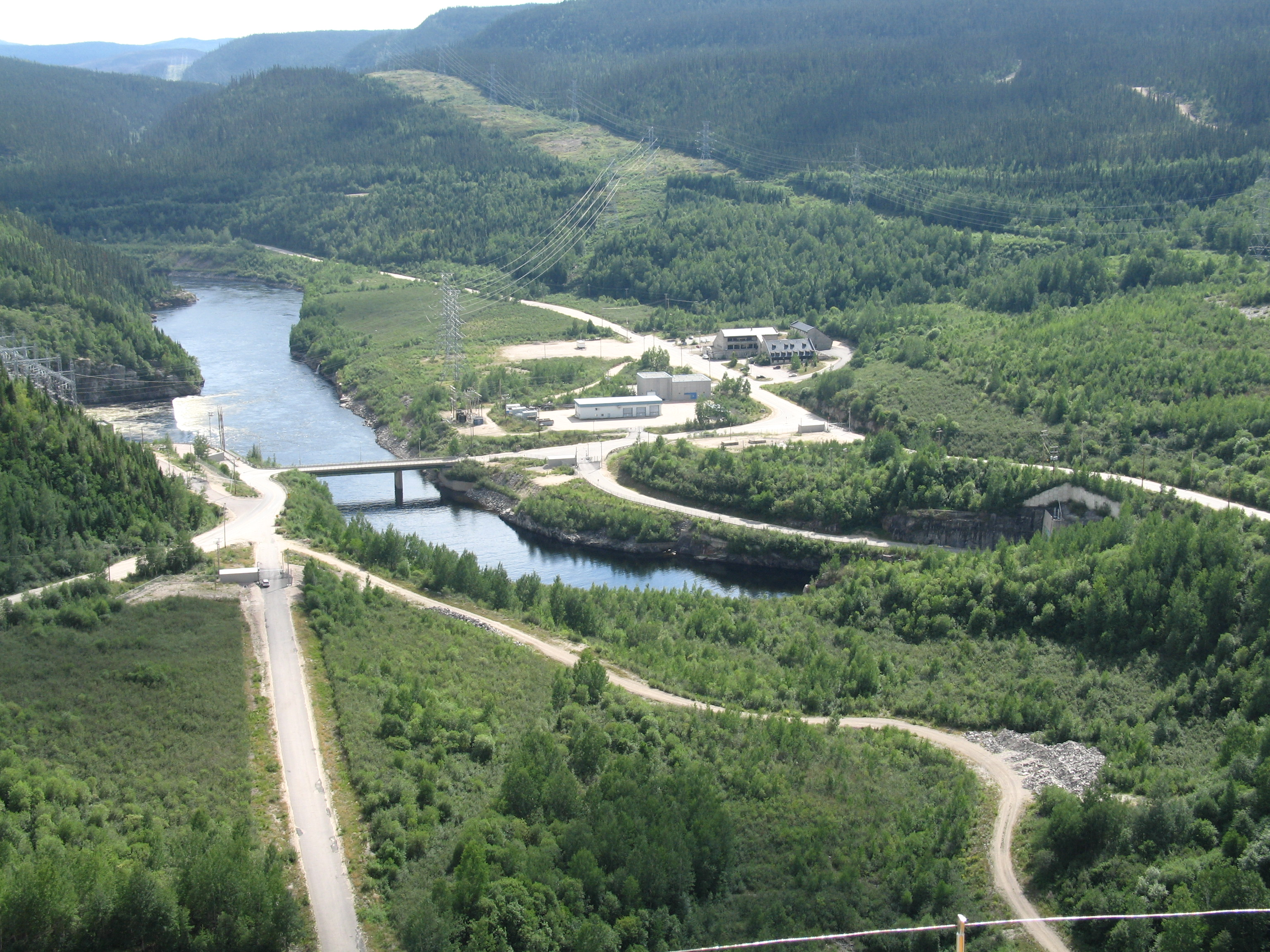 Overview of the Manicouagan River, taken from the top of the Daniel-Johnson Dam, located 214 km north of Baie-Comeau, Quebec. The Manic-5 generating station (1596 MW, on the left), while the underground Manic-5-PA (1064 MW) is located on the other side of the Manicouagan river. Center, the visitors' center and the Route 389 bridge.